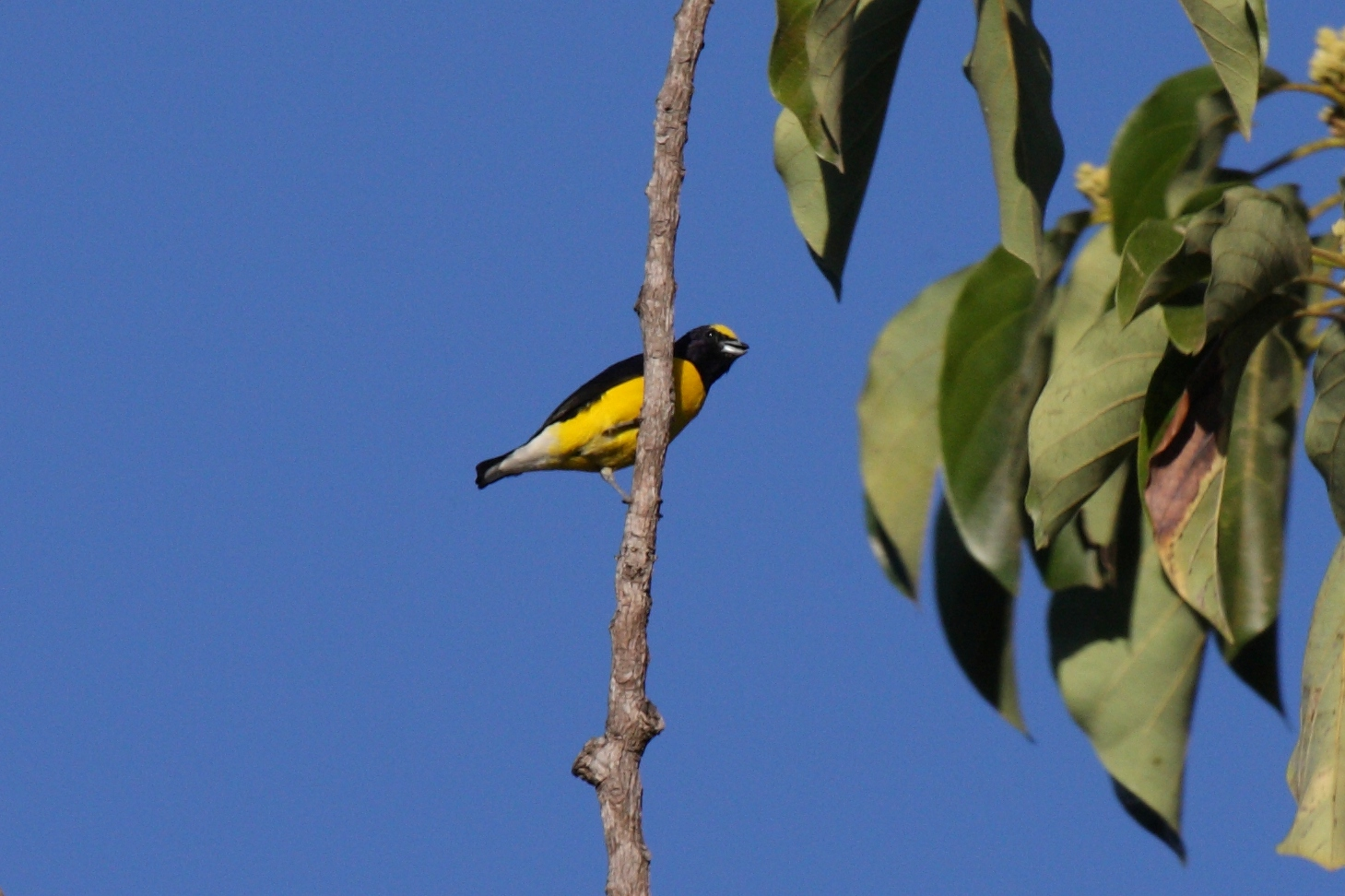 Godman's Scrub Euphonia (Euphonia affinis godmani), Mexico